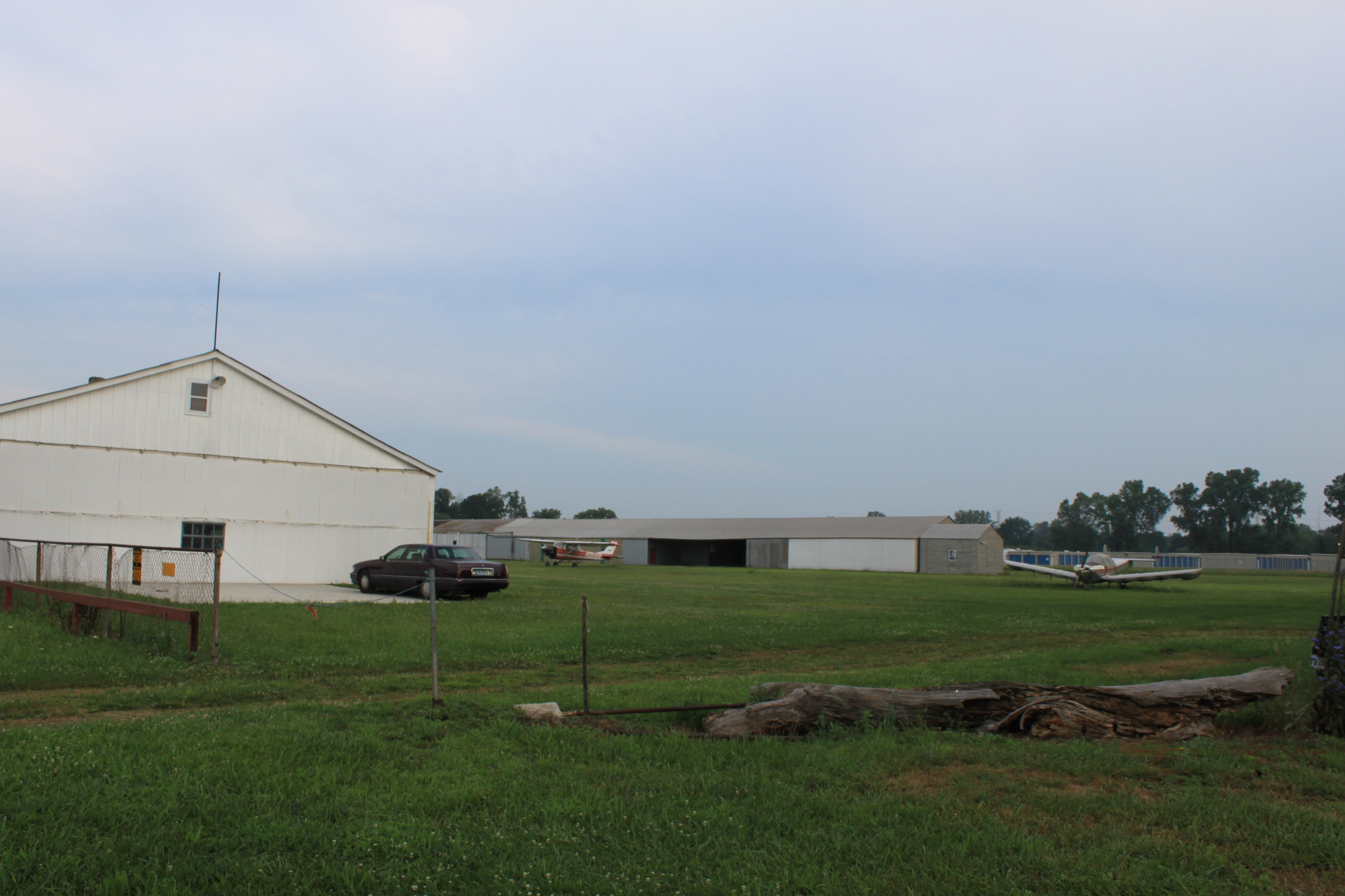 Belleville Michigan Airport, hangar area, Rawsonville Road